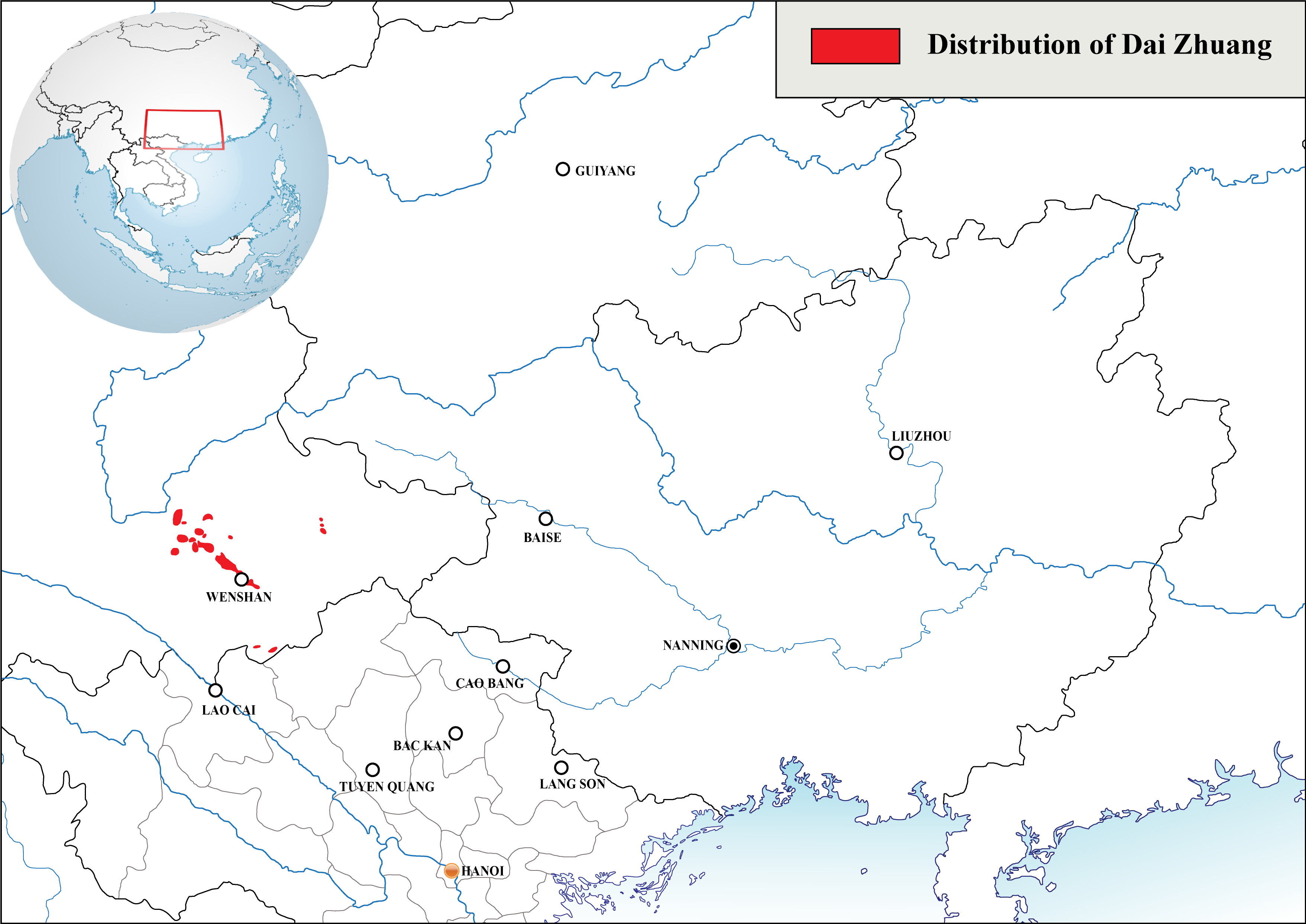 Geographic distribution of Dai Zhuang dialect Source: Major Zhuang Language Groups and Related Peoples (Joshuaproject) [1]. Its vector version can be found here: Dai Zhuang.svg